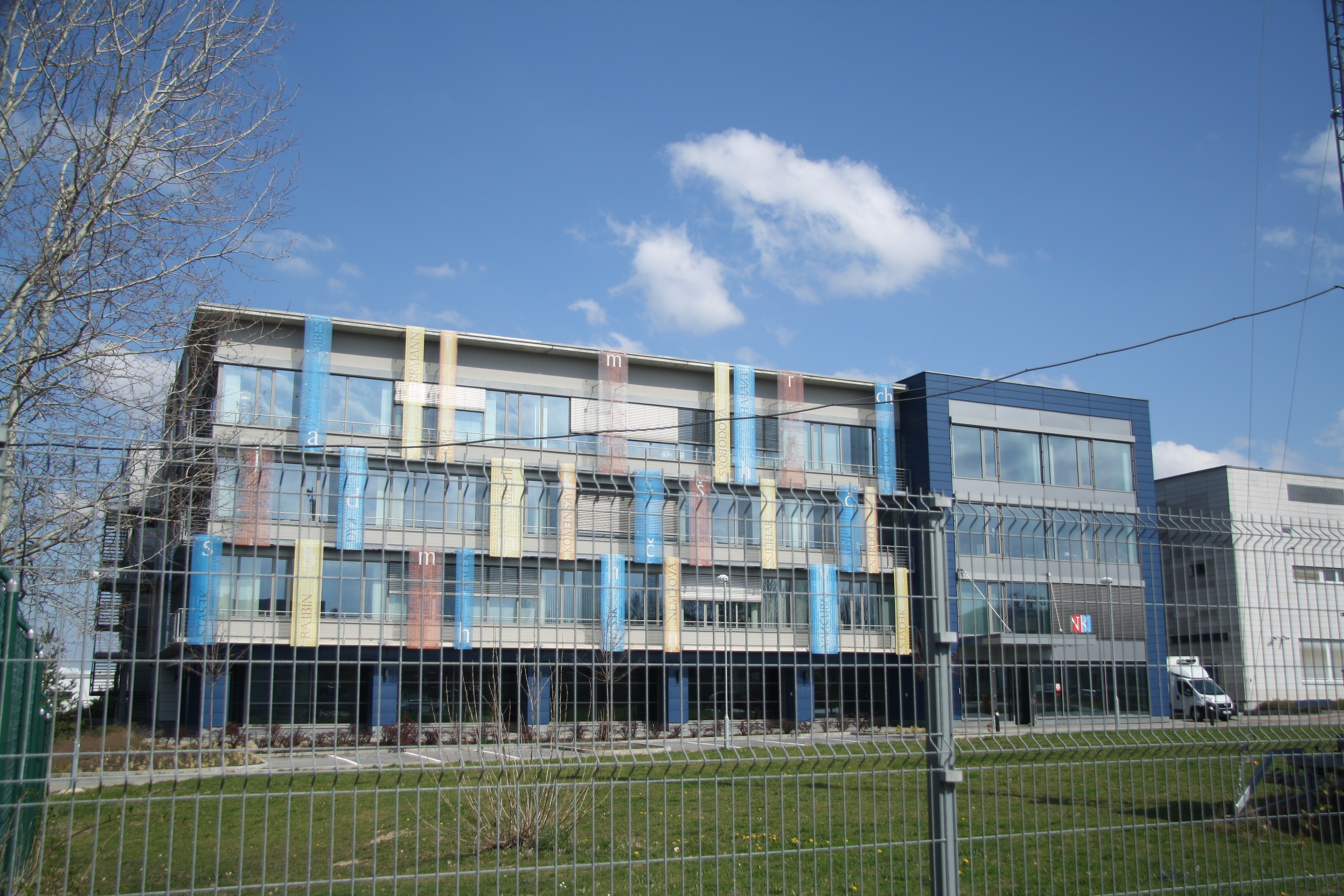 Overview of Digital depository of National library Prague at Sodomkova street in Hostivař, Prague.